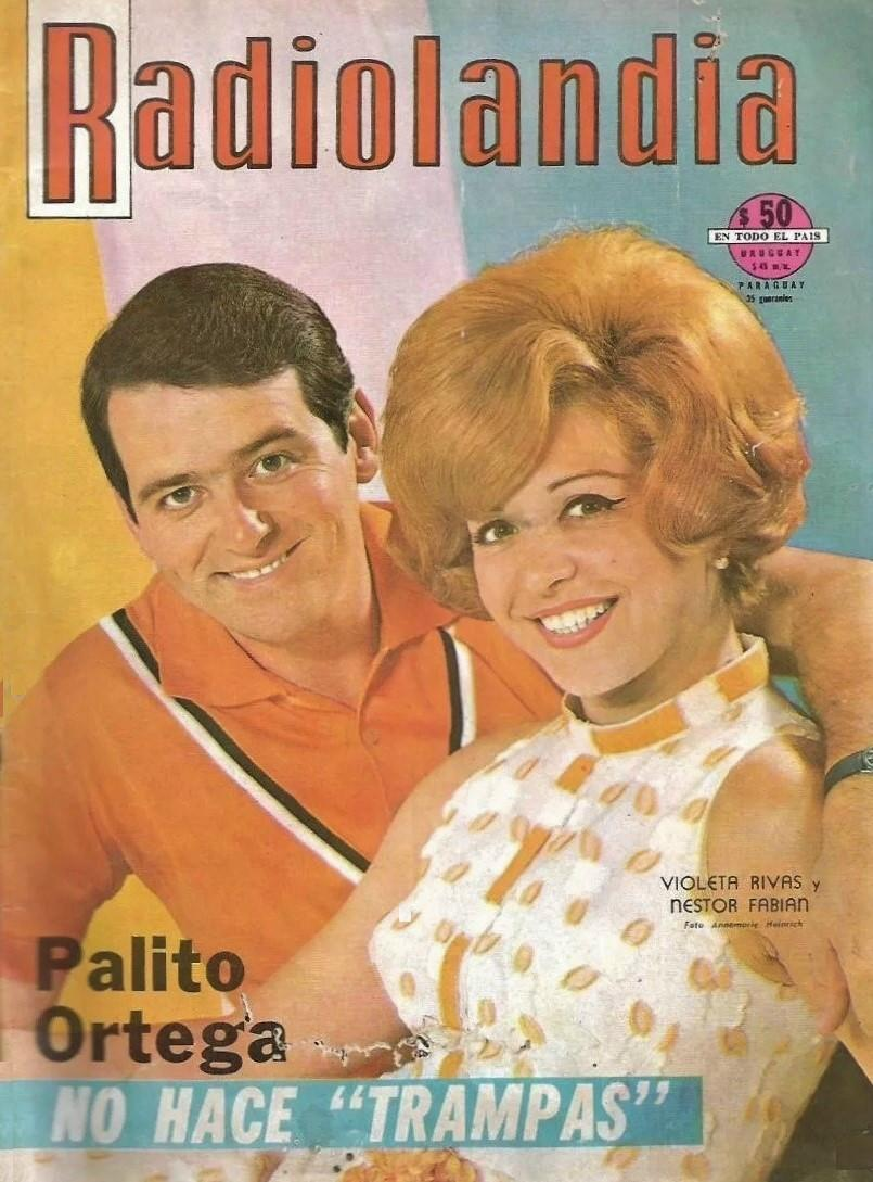 Violeta Rivas and Néstor Fabián on cover of Radiolandia 1969. Photograph by Annemarie Heinrich